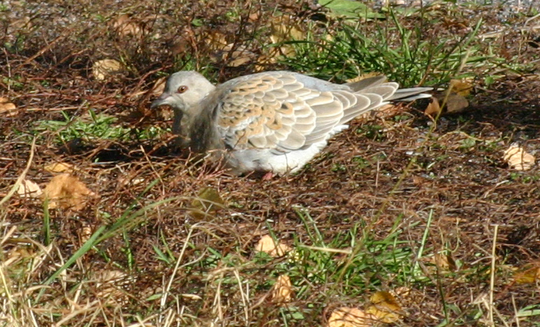 Turtle Dove in Kumpula, Helsinki.